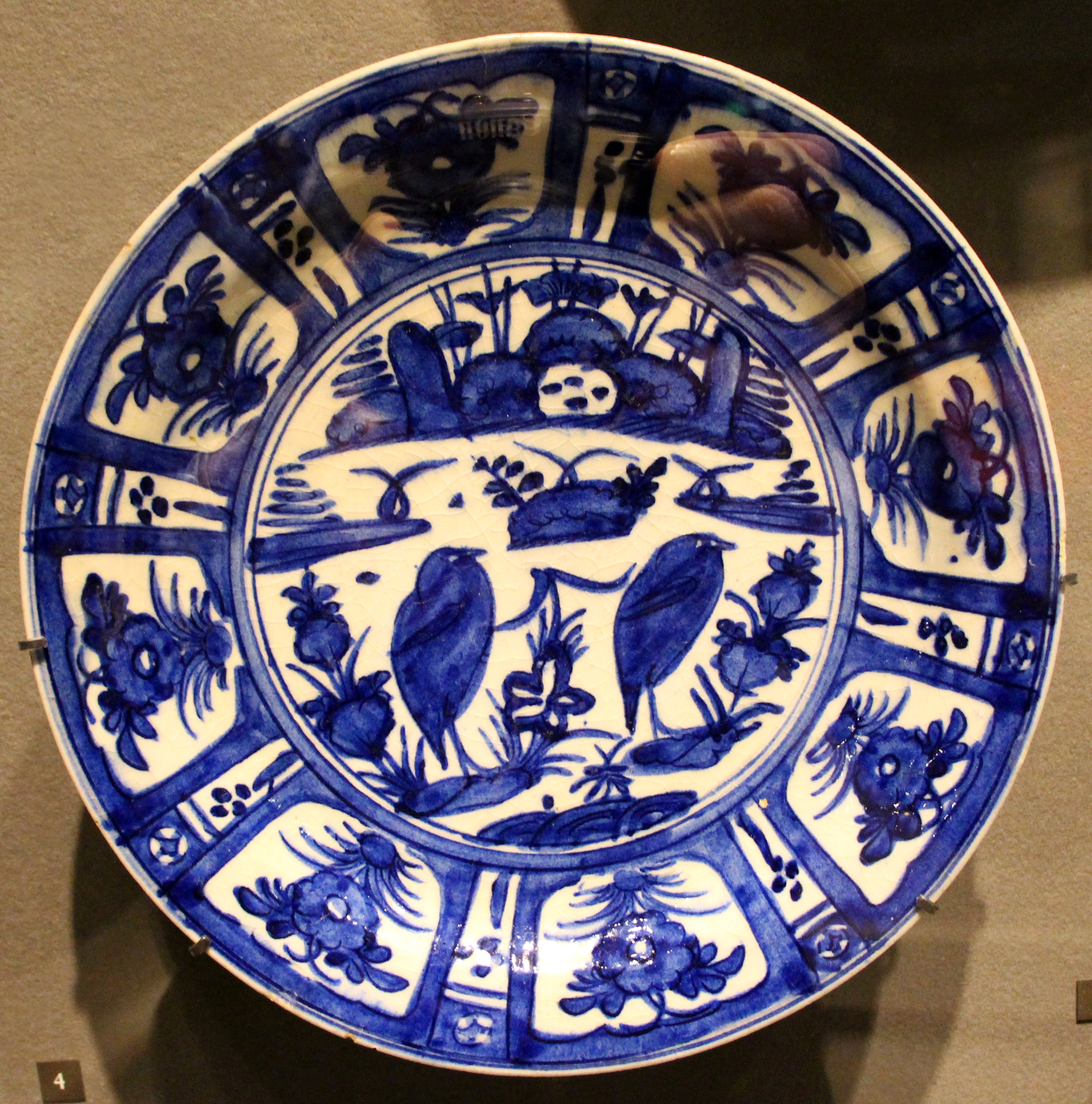 Ceramics of the Islamic art collection in the Louvre